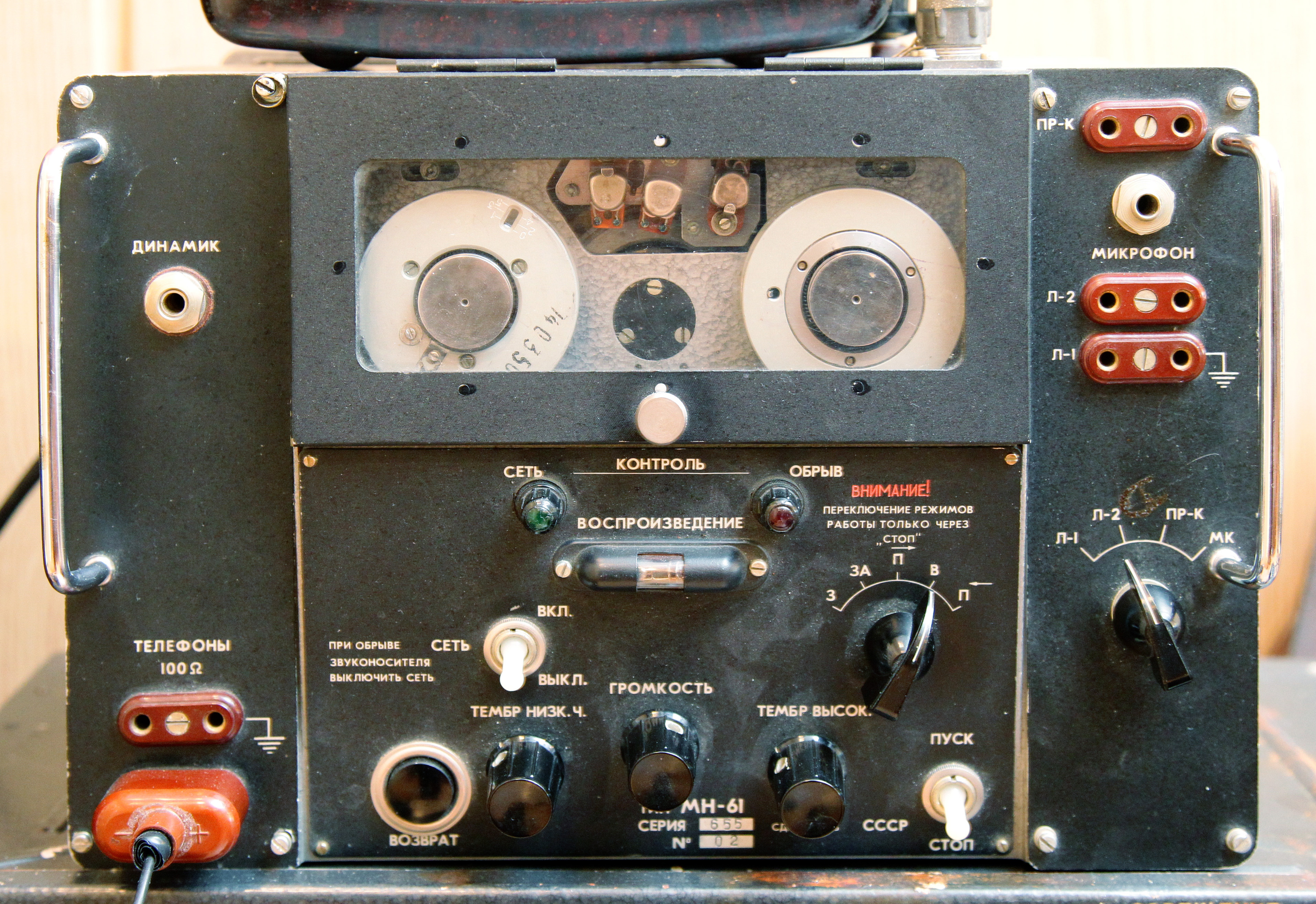 Soviet wire sound recorder MN-61 for ground air traffic voice recording, recording military ground-to-air voice communications, and playing back recording made by the MC-61 flight recorder. Built since 1961 by Vilma in Vilnius and the Rybinsk Instument Plant ([1]). This is a very compact (326x241х236 mm) but very tightly packed (12 kg weight) unit for the period.